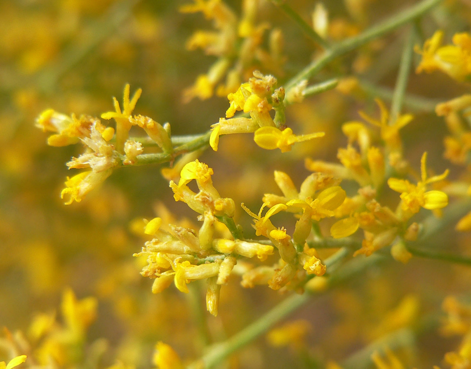 Gutierrezia microcephala near highway 160 where it passes north of the Bird Spring Range (4 km SW of Blue Diamond), Red Rock Canyon, Spring Mountains, southern Nevada (elev. about 1200 m)